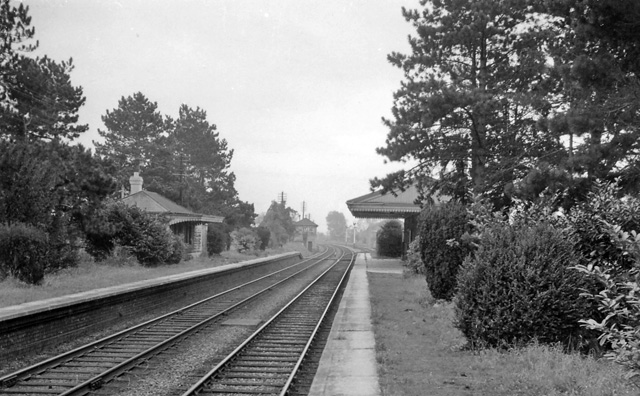 Bishop's Cleeve Station (remains) View southward, towards Cheltenham; ex-GWR Birmingham - Stratford-on-Avon - Honeybourne - Cheltenham - Gloucester - Bristol main line. Station closed to passengers 7/3/60 (goods 7/7/63). The line Honeybourne North Junction - Cheltenham Lansdown Junction last saw regular passenger trains 25/3/68, but continued as a freight route until Winchcombe accident on 25/10/76 closed line completely. Line restored by Gloucestershire & Warwickshire Railway in stages southwards from Toddington since 22/4/84, eventually through to Cheltenham Racecourse Station 28/12/00. However, Bishop's Cleeve station has not been restored.